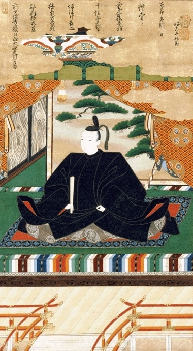 Azuchi Momoyama Period-Portrait of Hideaki Kobayakawa, Daimyo Edo Period